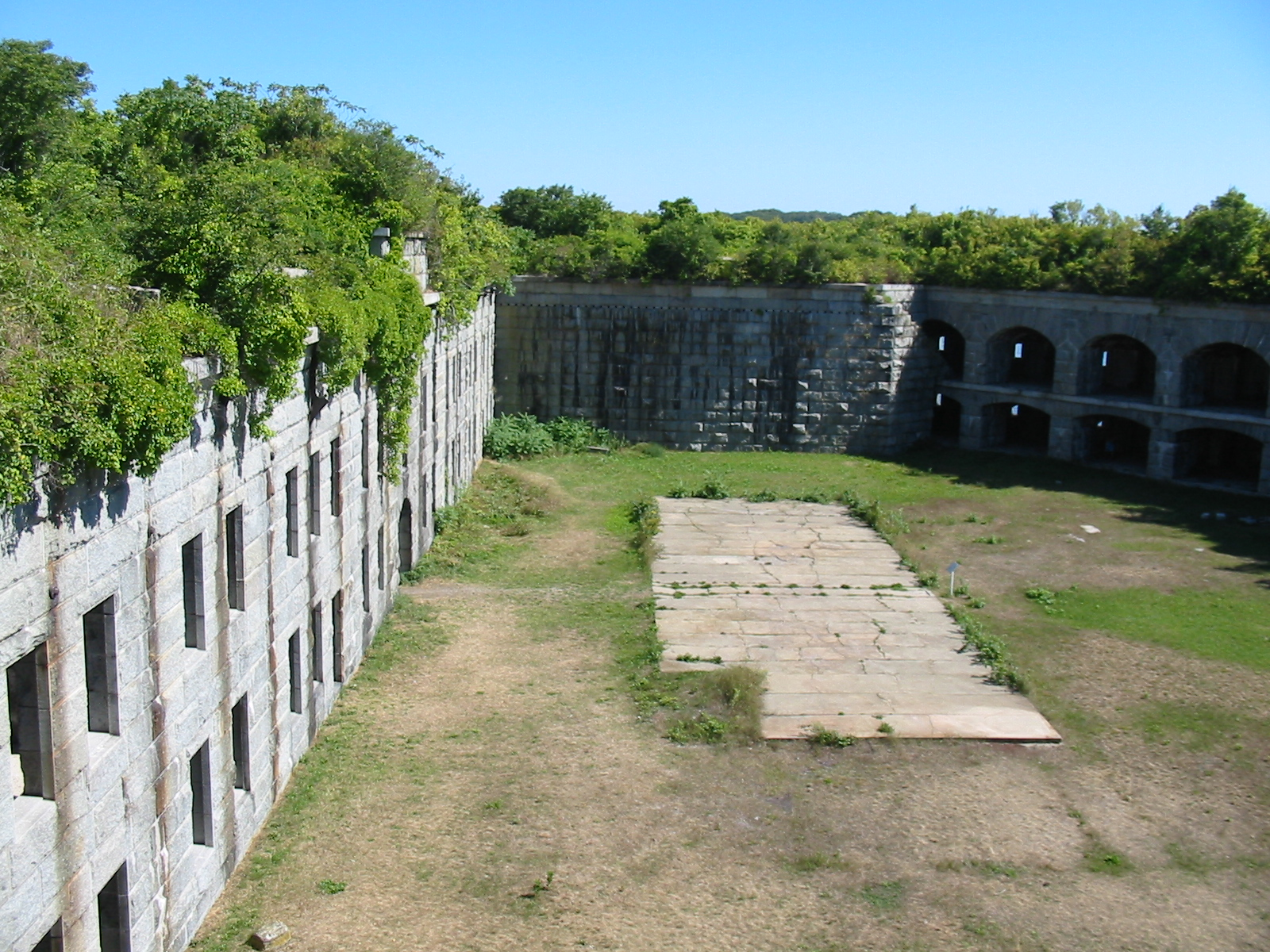 Fort Gorges, Portland, Maine. This view looks north onto the parade ground from the heavily vegetated roof. Straight wall on left is officers' living quarters. Diring WWII, mines and other munitions were stored in a structure in the center. Today, only the concrete pad remains. Sunlight shows many irregularities in the inside north wall of the fort.